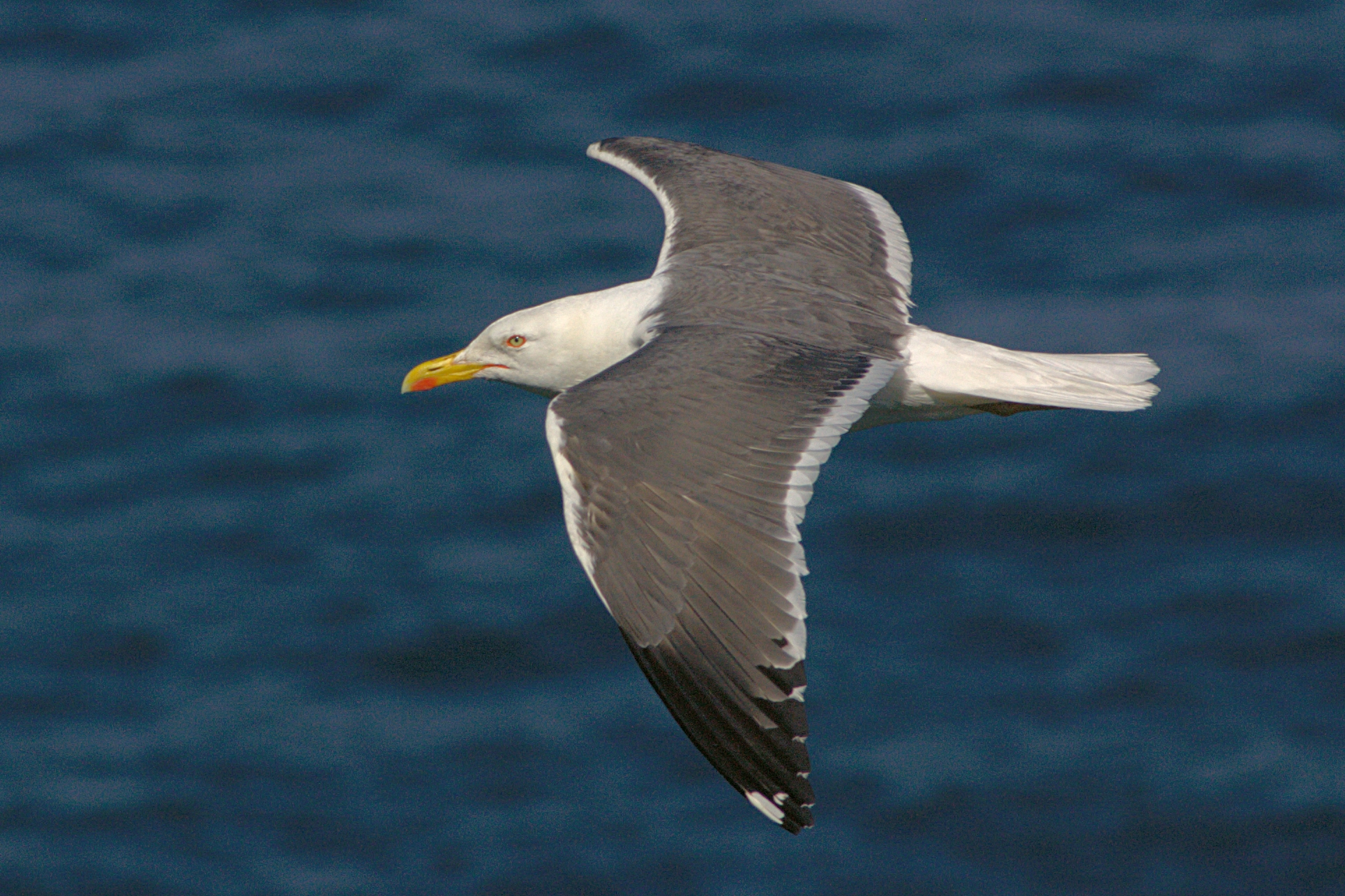 A Lesser Black-backed Gull (Larus fuscus graellsii) in flight just off the island of Skomer, Pembrokeshire, Wales, UK.